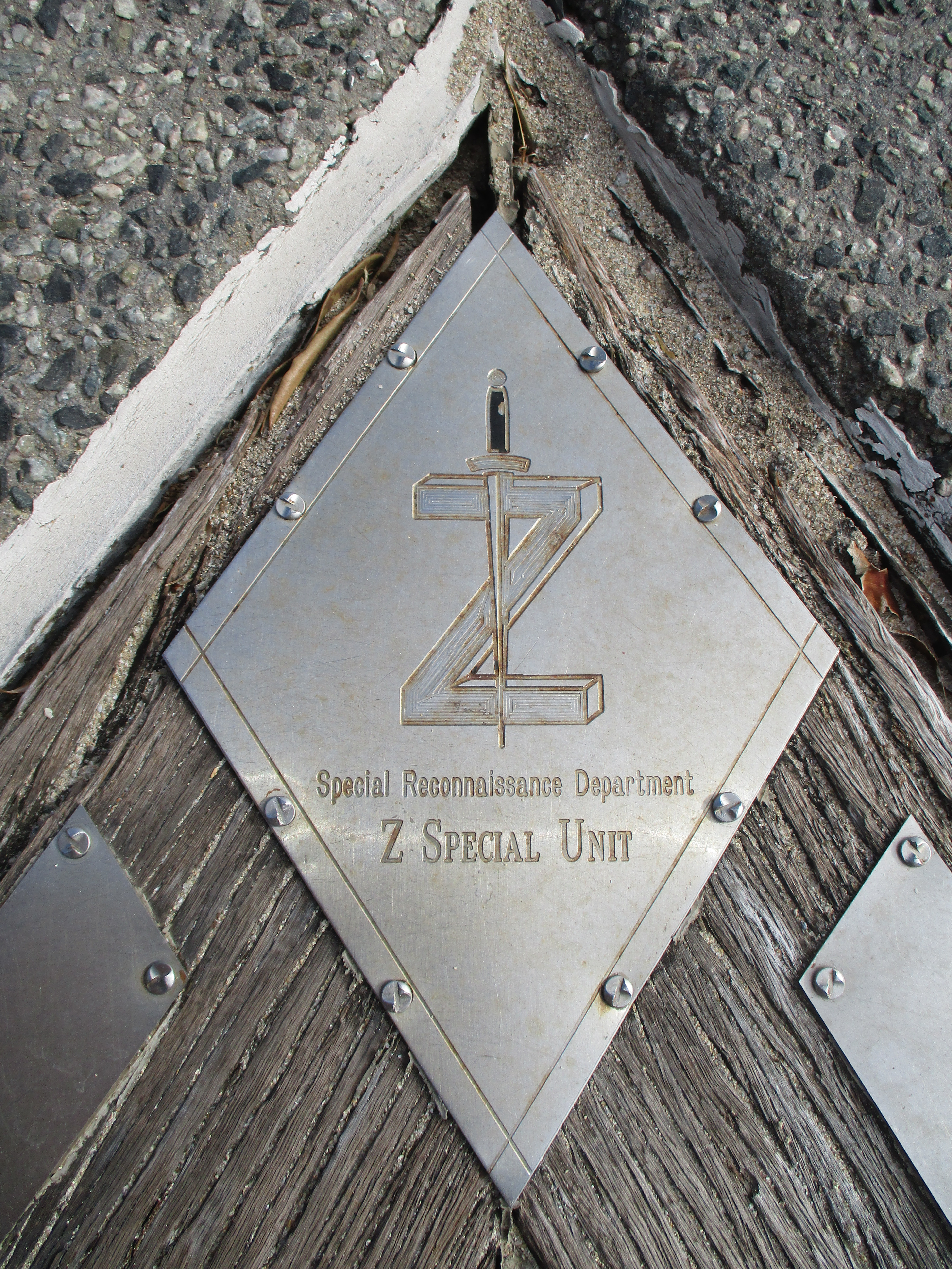 Z Special Unit Memorial commemorative marker in the footpath near Palm Beach Jetty, Rockingham, Western Australia.